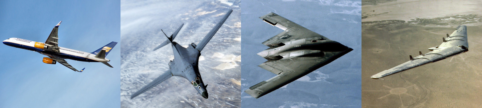 Blended Wing Body and other aircraft configurations